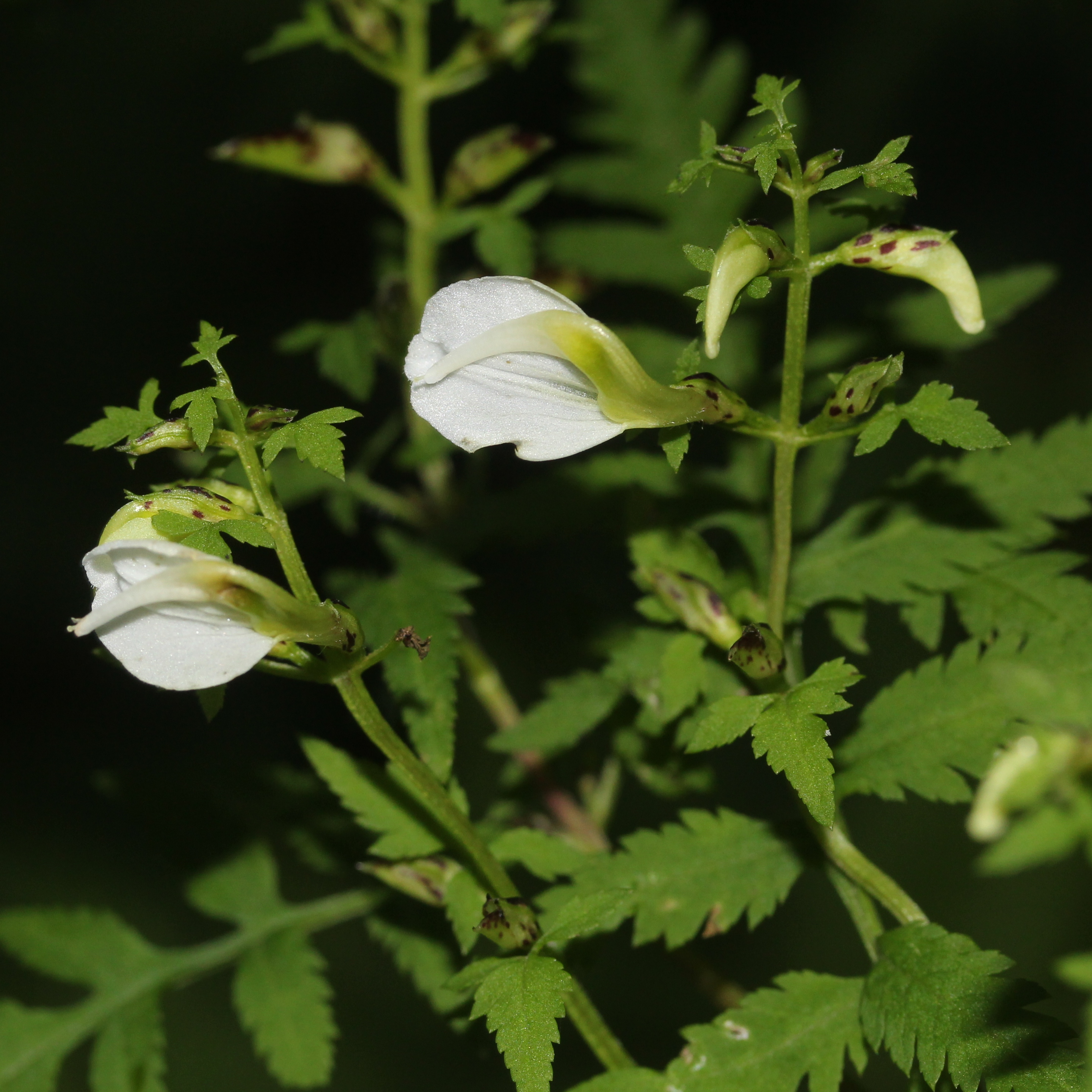 Pedicularis keiskei in Mount Kisokoma, Kiso Mountains, Kiso Town, Nagano Prefecture, Japan.